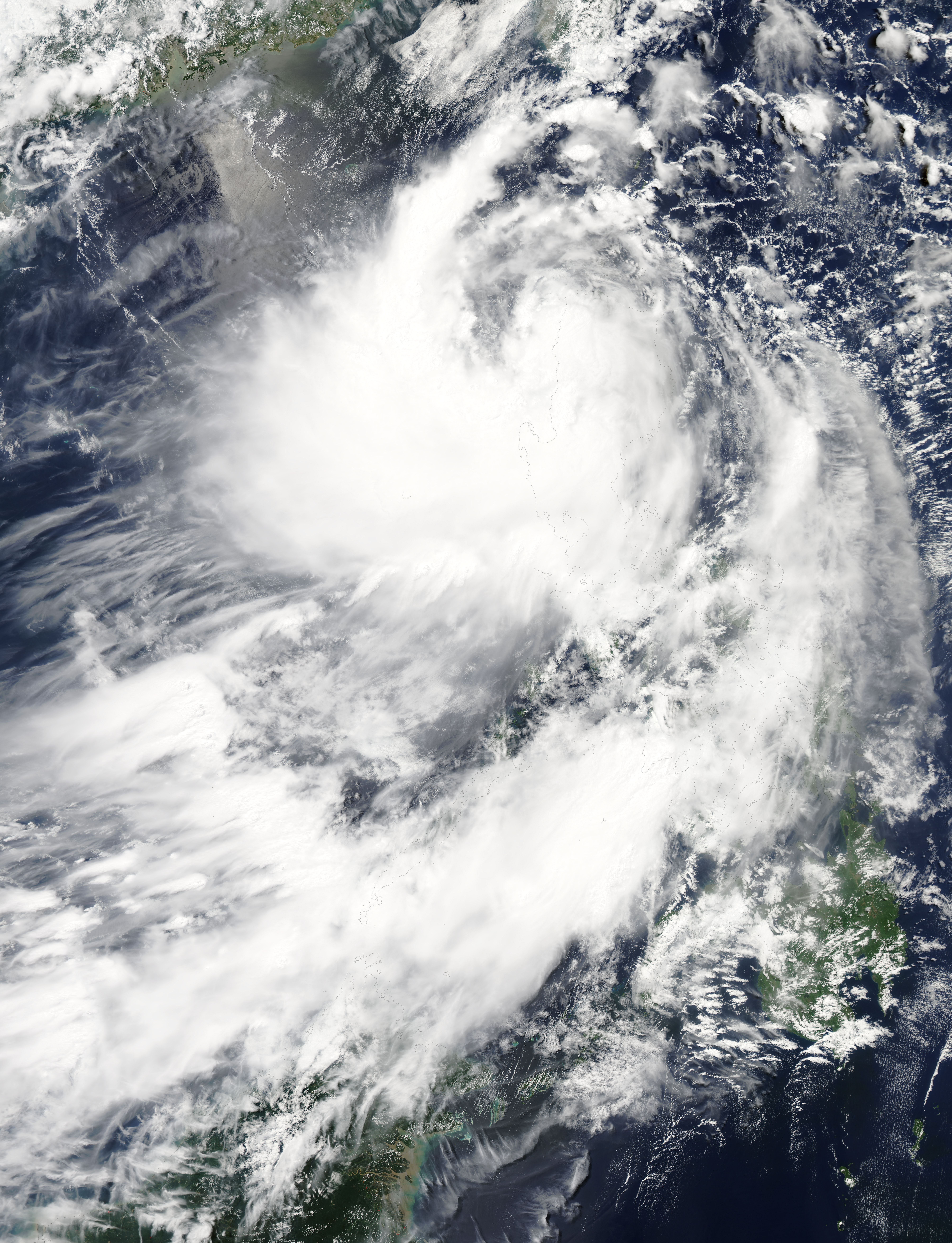 Tropical Storm Linfa (10W) over the Philippines